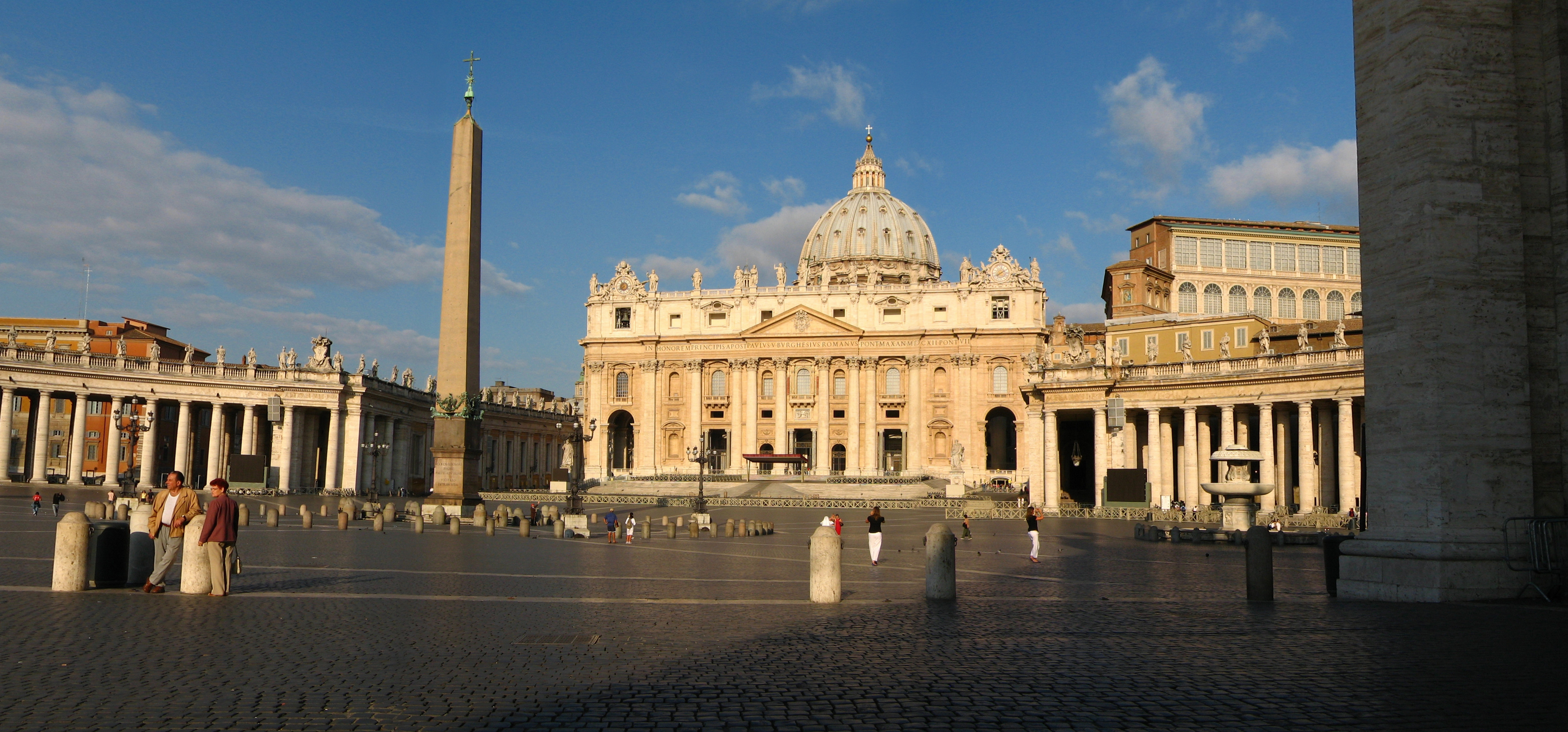 St Peter's Basilica, Vatican City